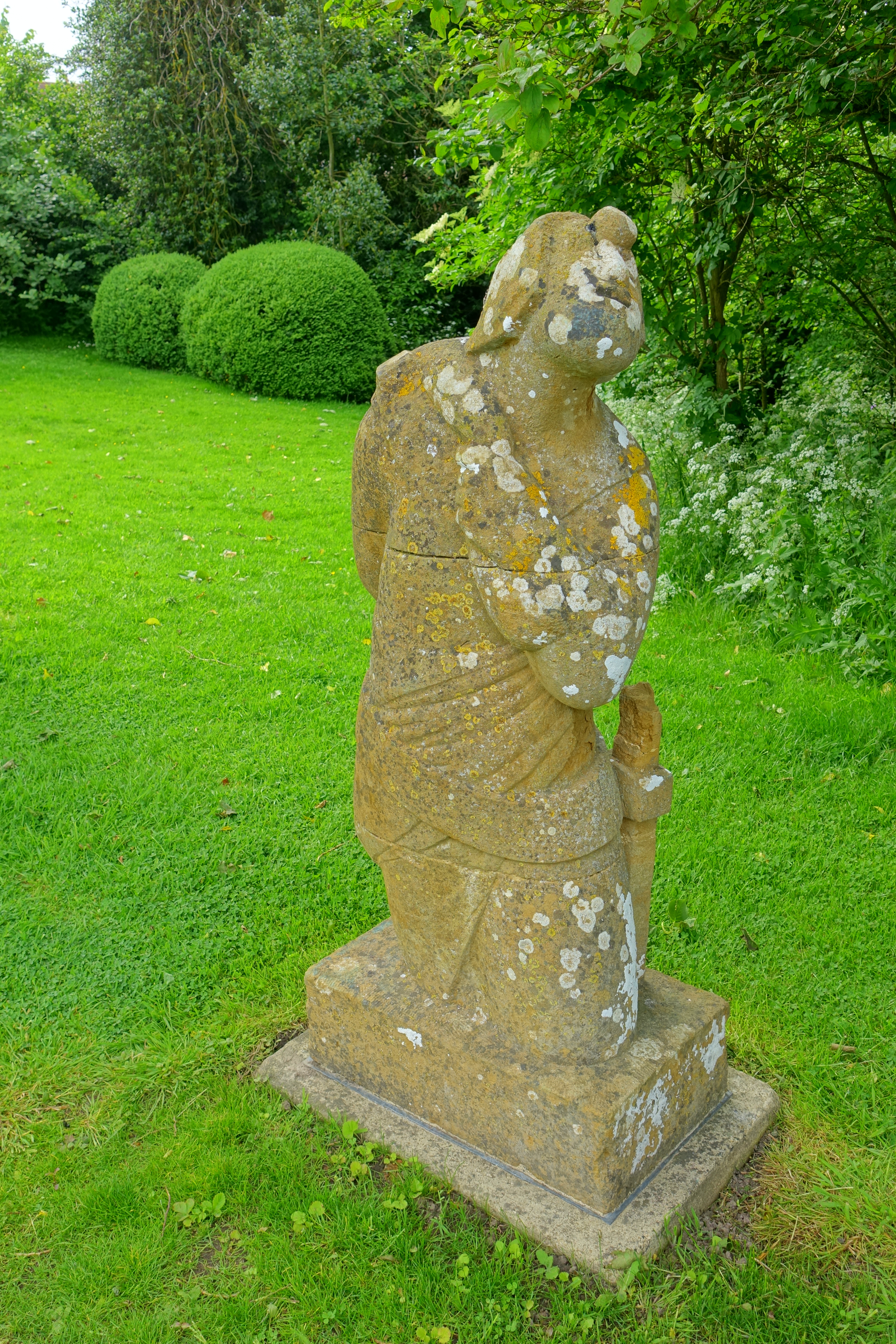 Monk's House - Rodmell, East Sussex, England.